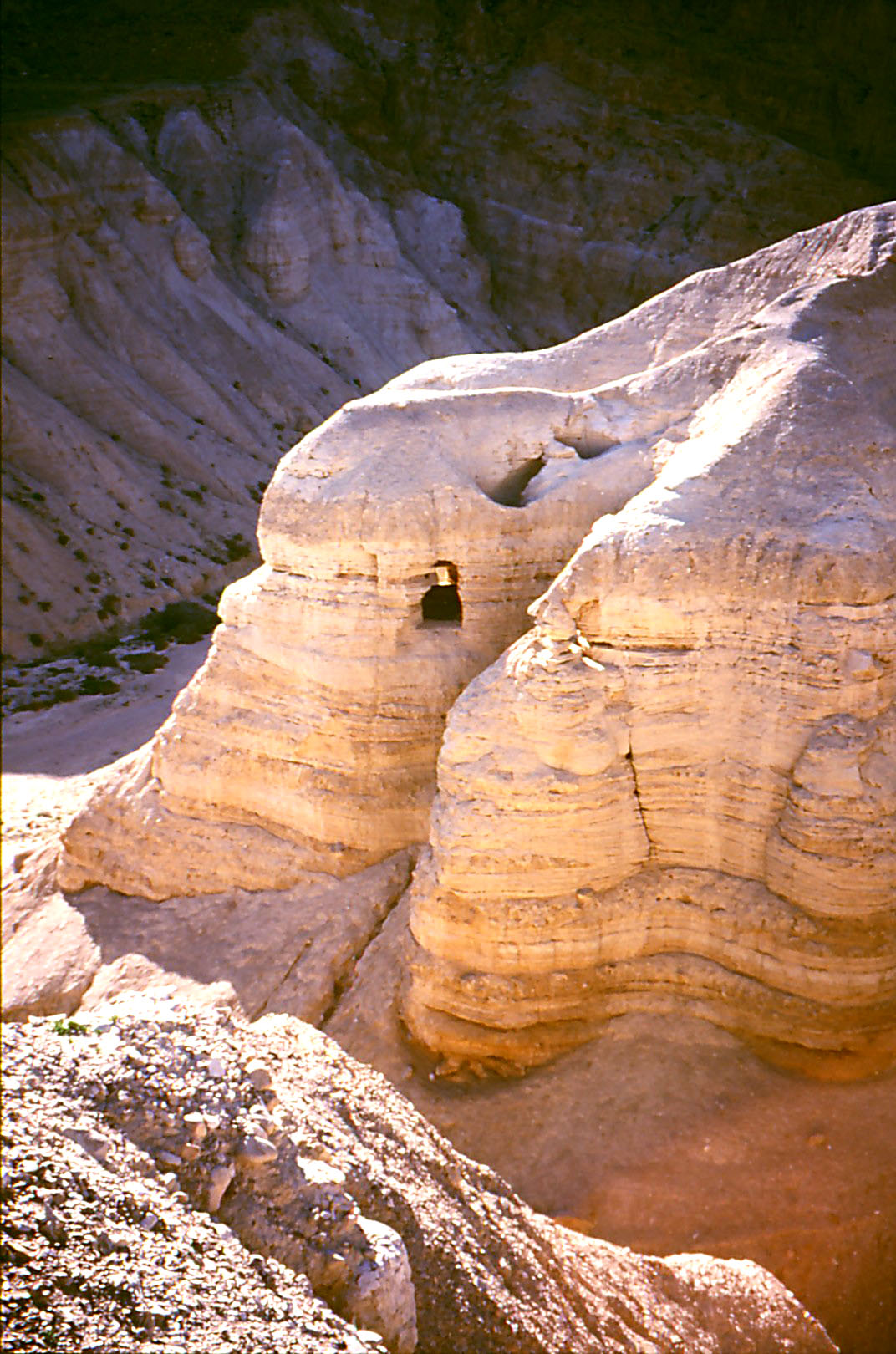 Caves at Qumran in the West Bank, Middle East. In this area the Dead Sea Scrolls were found.